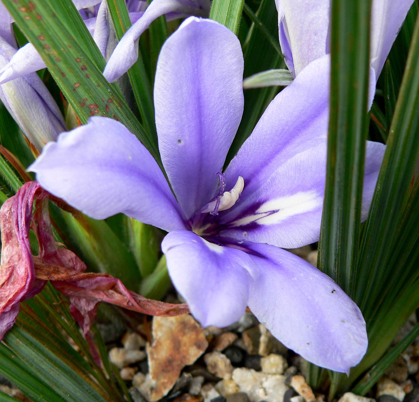 Photo of Babiana sambucina at the University of California Botanical Garden